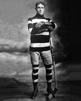 Ottawa Senators Jack Darragh